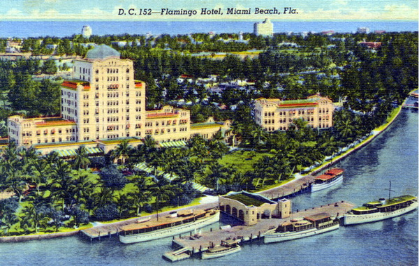 The Flamingo Hotel and surrounding Miami Beach